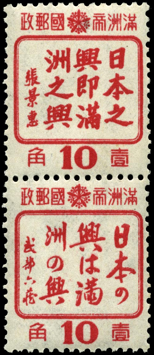 Manchukuo 10-fen propaganda stamps of 1932, pair with Japanese and Chinese lettering